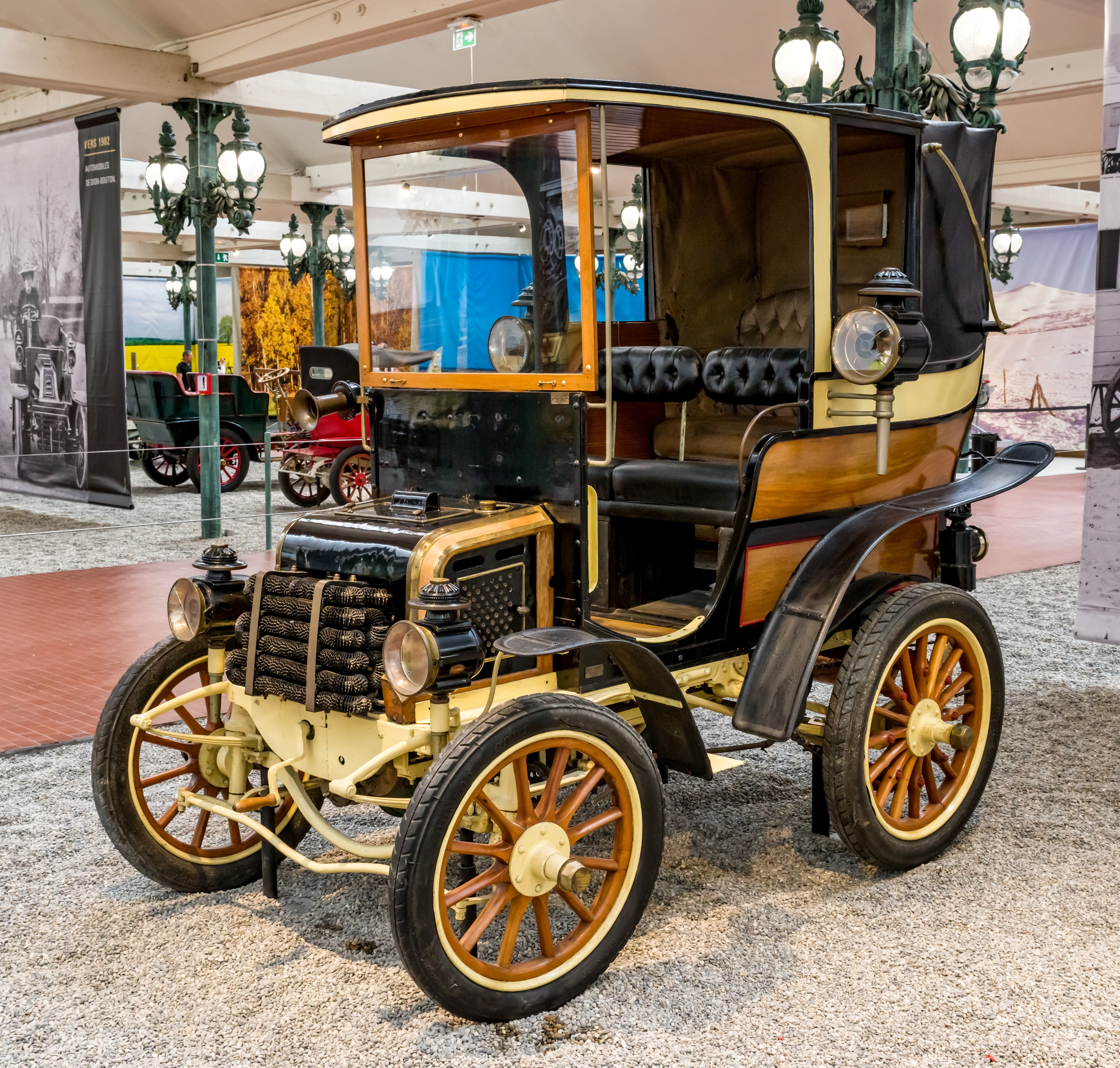 pictures from the Cité de l’Automobile – Musée National – Collection Schlump in Mulhouse, France ptictures from the 10. may 2018 Panhard & Levassor automobiles